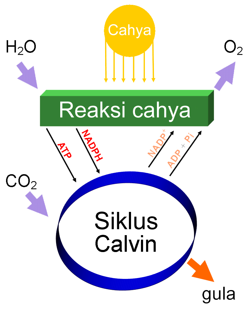 A simplified diagram of photosynthesis. Redrawn in vector format from image:Simple_photosynthesis_overview.PNG, translated to Javanese